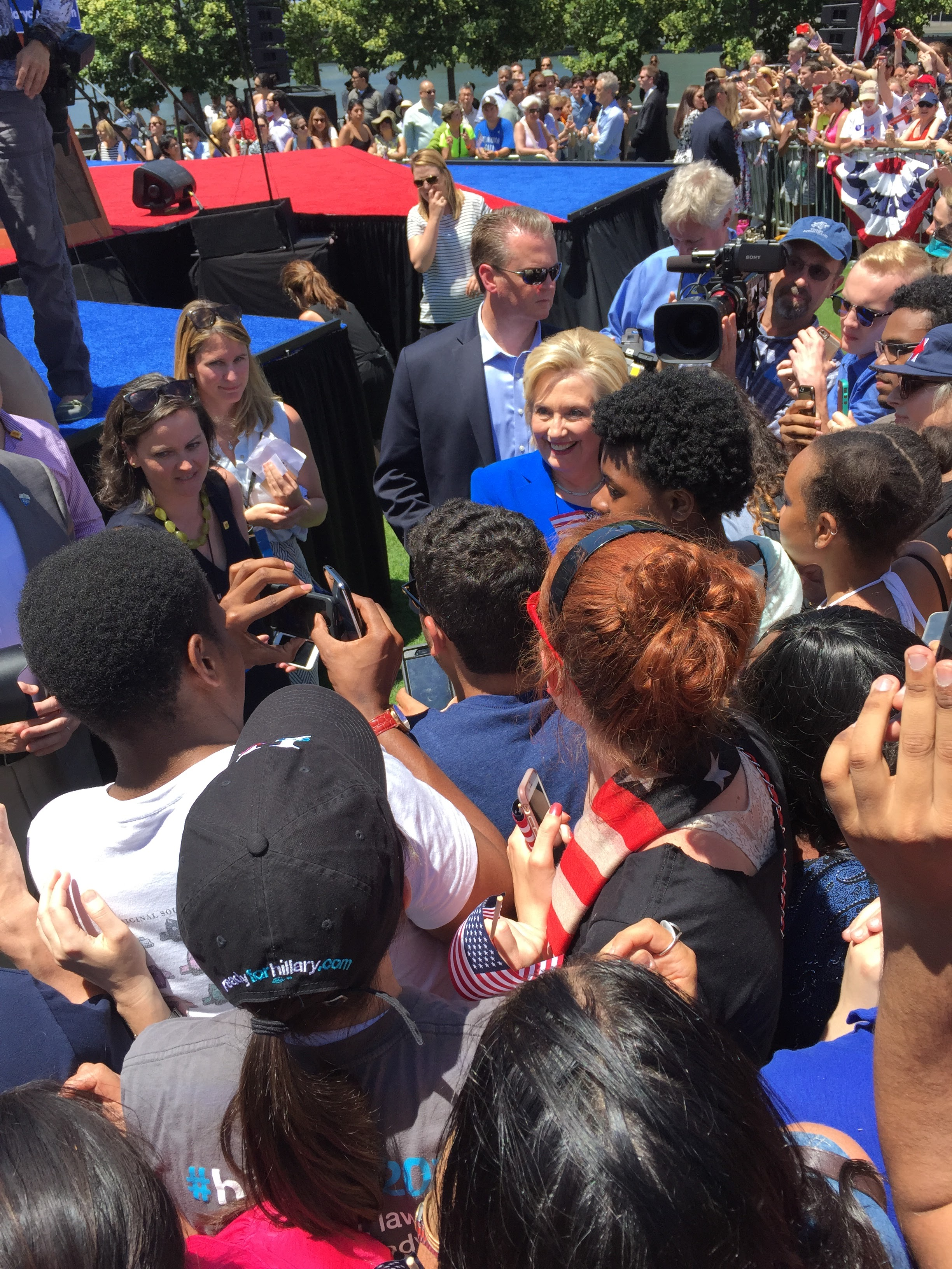 Hillary Clinton 2016 Kickoff — Greeting Crowd